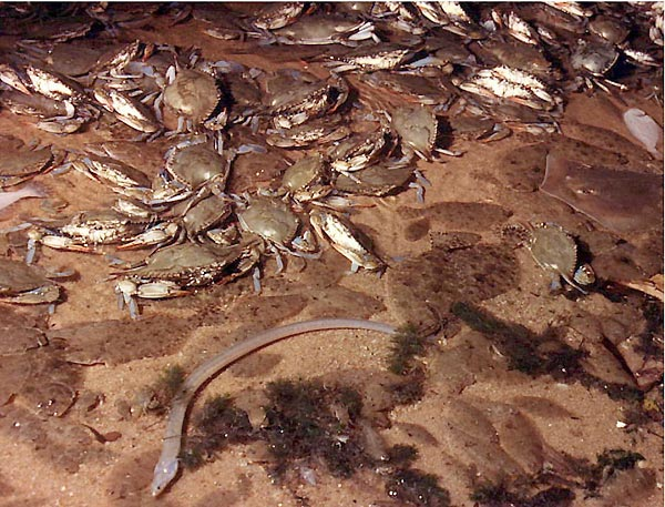 Scene during a jubilee along the shores of Mobile Bay in Alabama. Low levels of dissolved oxygen in the water can cause some aquatic animals, including blue crab, flounder, stingrays, and eels, to become very lethargic and move to the shallows.